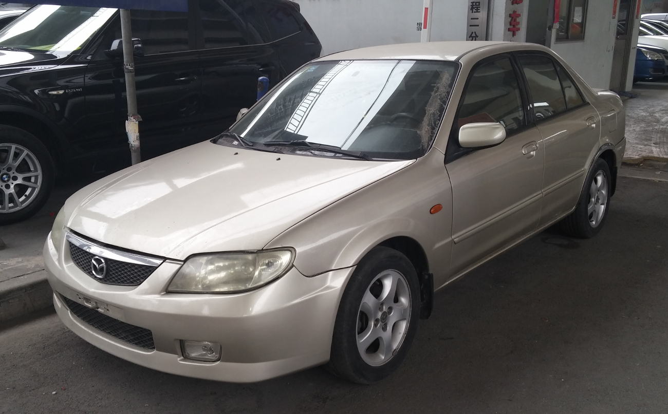 Mazda 323 BJ sedan photographed in Shanghai, China.